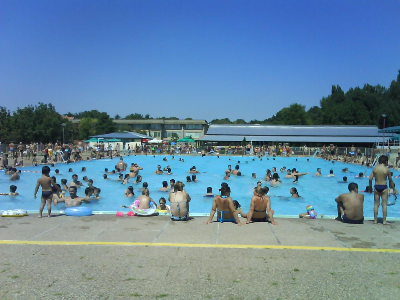 Swimming pool in Temerin